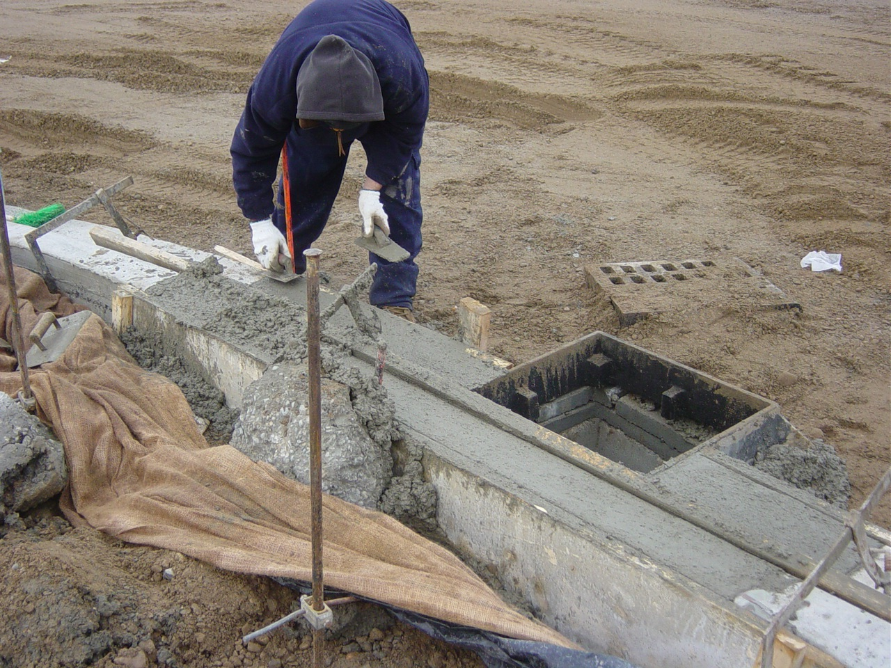 Hand forming concrete curb around a catch basin in Ontario, Canada.